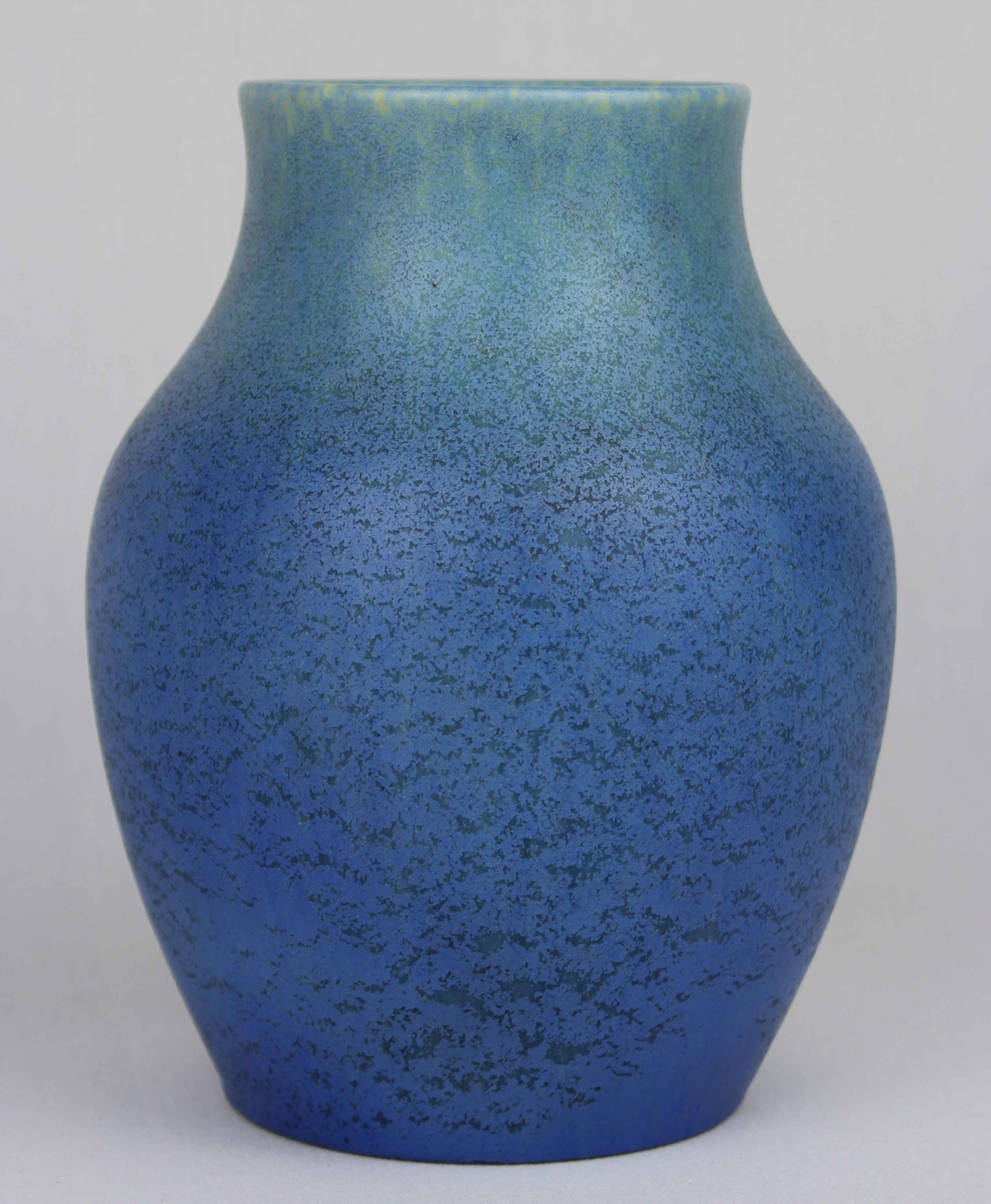 Vase with mottled blue glaze. From the W.A. Ismay Studio Ceramics Collection at York Art Gallery